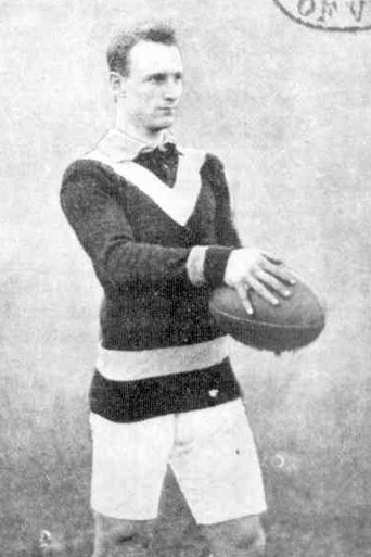 Photograph of George Elliott from the 1910 Weekly Times Victorian Footballer Postcard Series